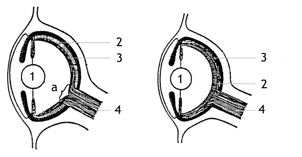 Numbered differences between human and octopus eye